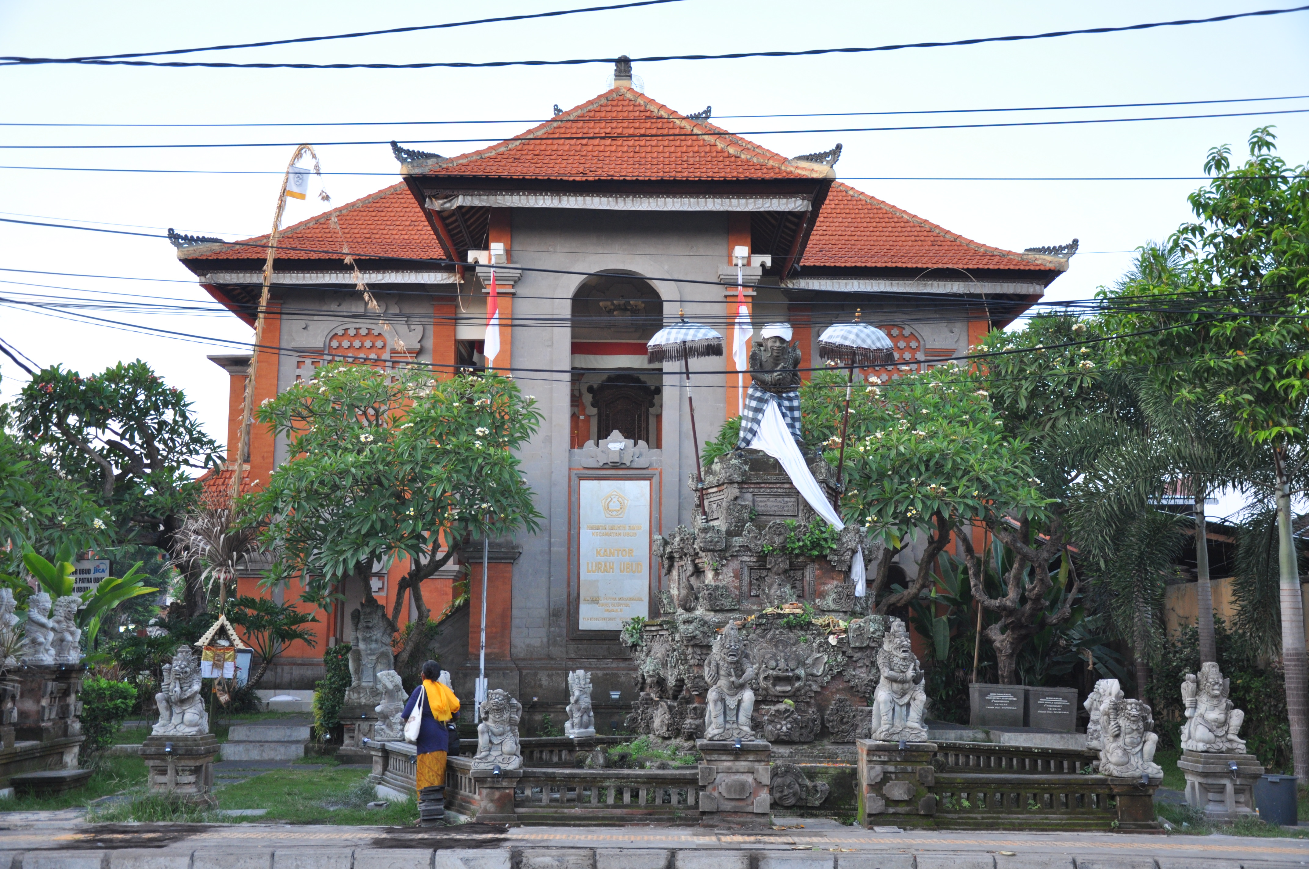 Kantor Lurah Ubud